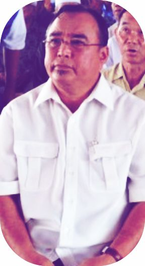 Dato Wira Othman Bin Abdul is the Independent Non-Executive Director of KSK (previously named Kurnia Asia Berhad).